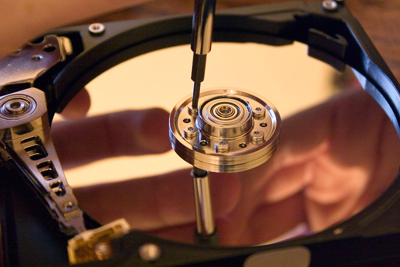 This is an IBM 120 GXP 60 GB desktop IDE drive, circa 2002, taken to illustrate the mirror shine of hard drive platters.